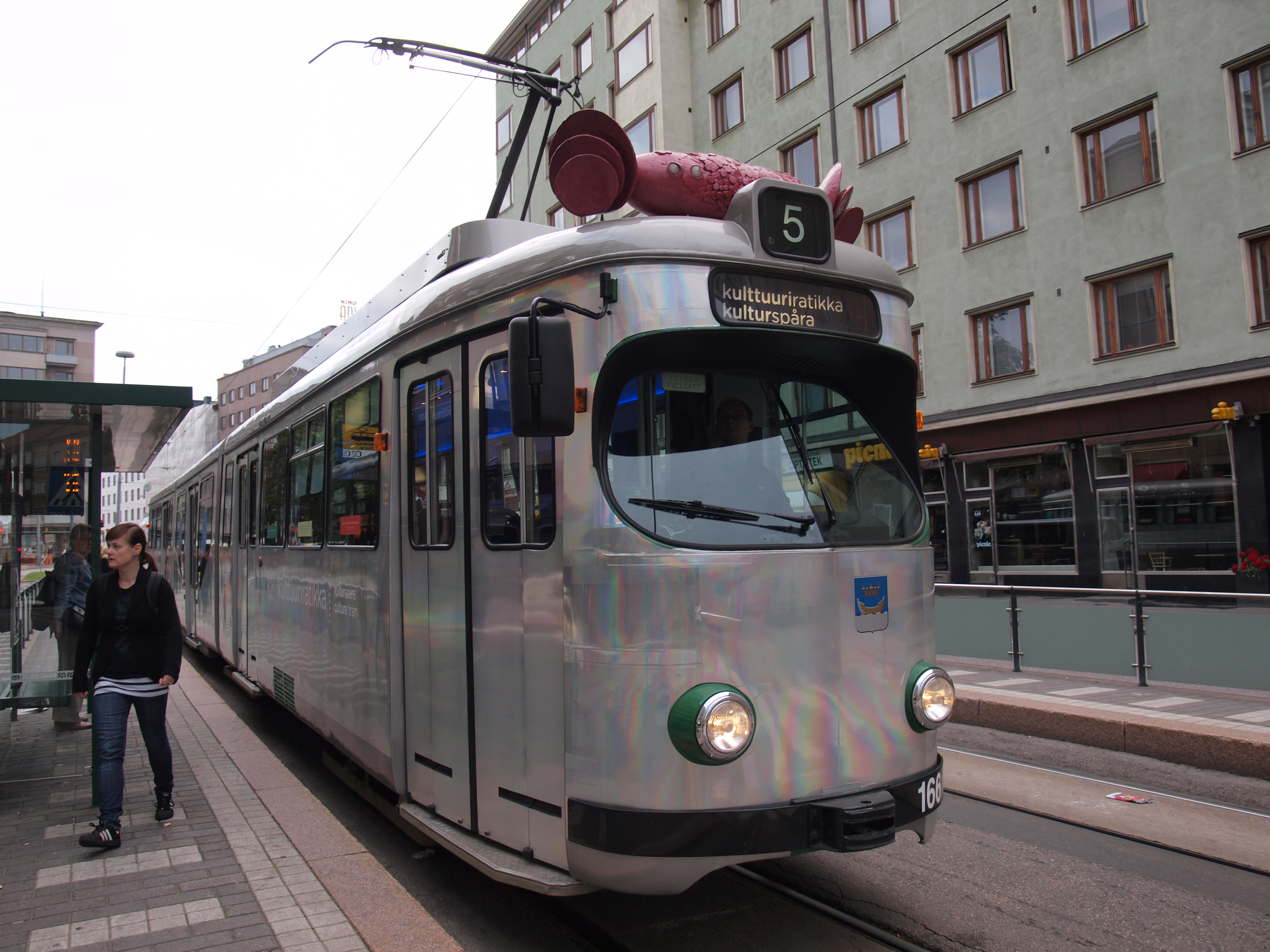 The special Culture Tram of the Helsinki tram network, labelled line 5, at a tram stop in Taka-Töölö, Helsinki.